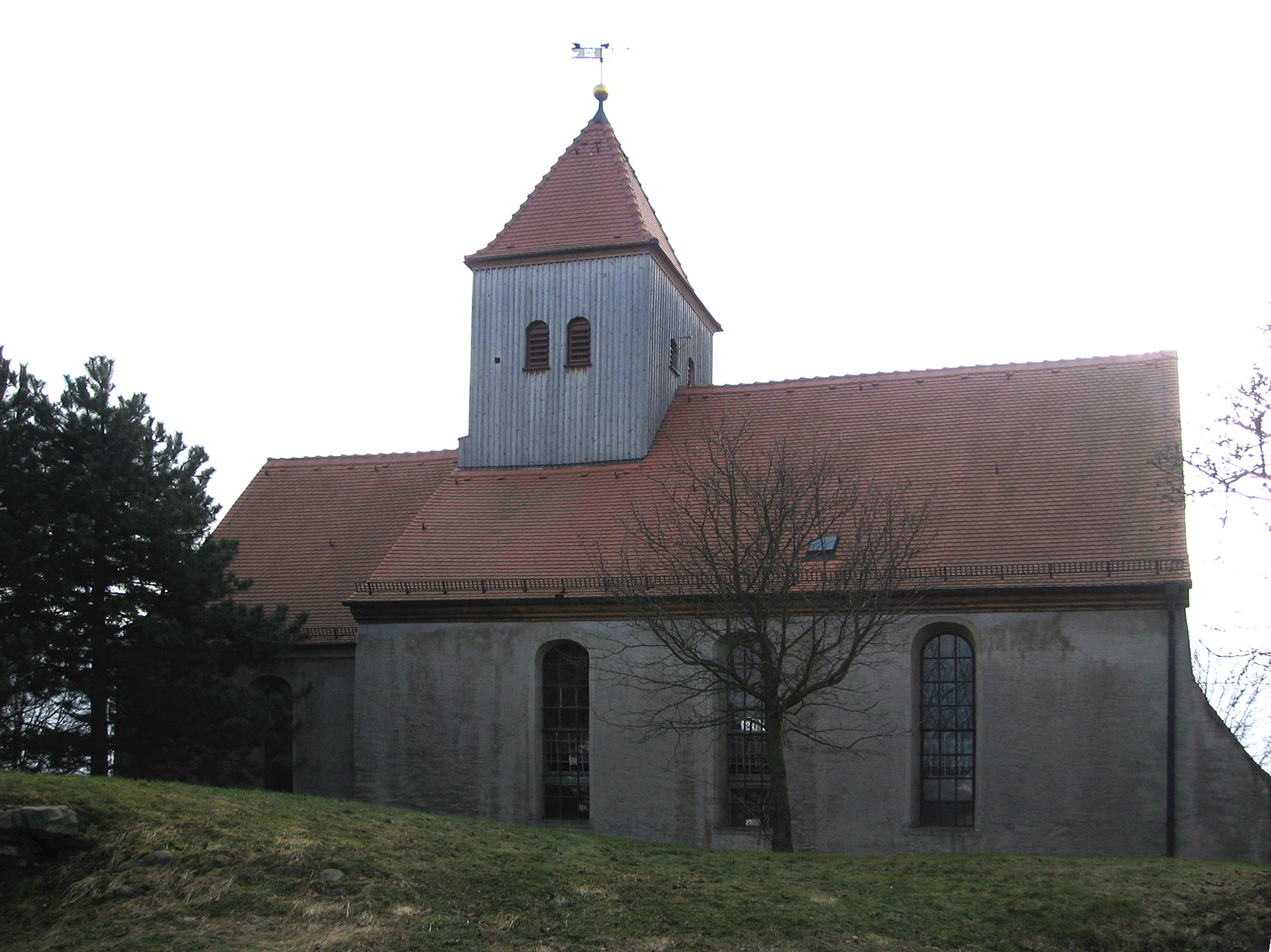 Church Leipzig-Zuckelhausen, Zuckelhausener Ring